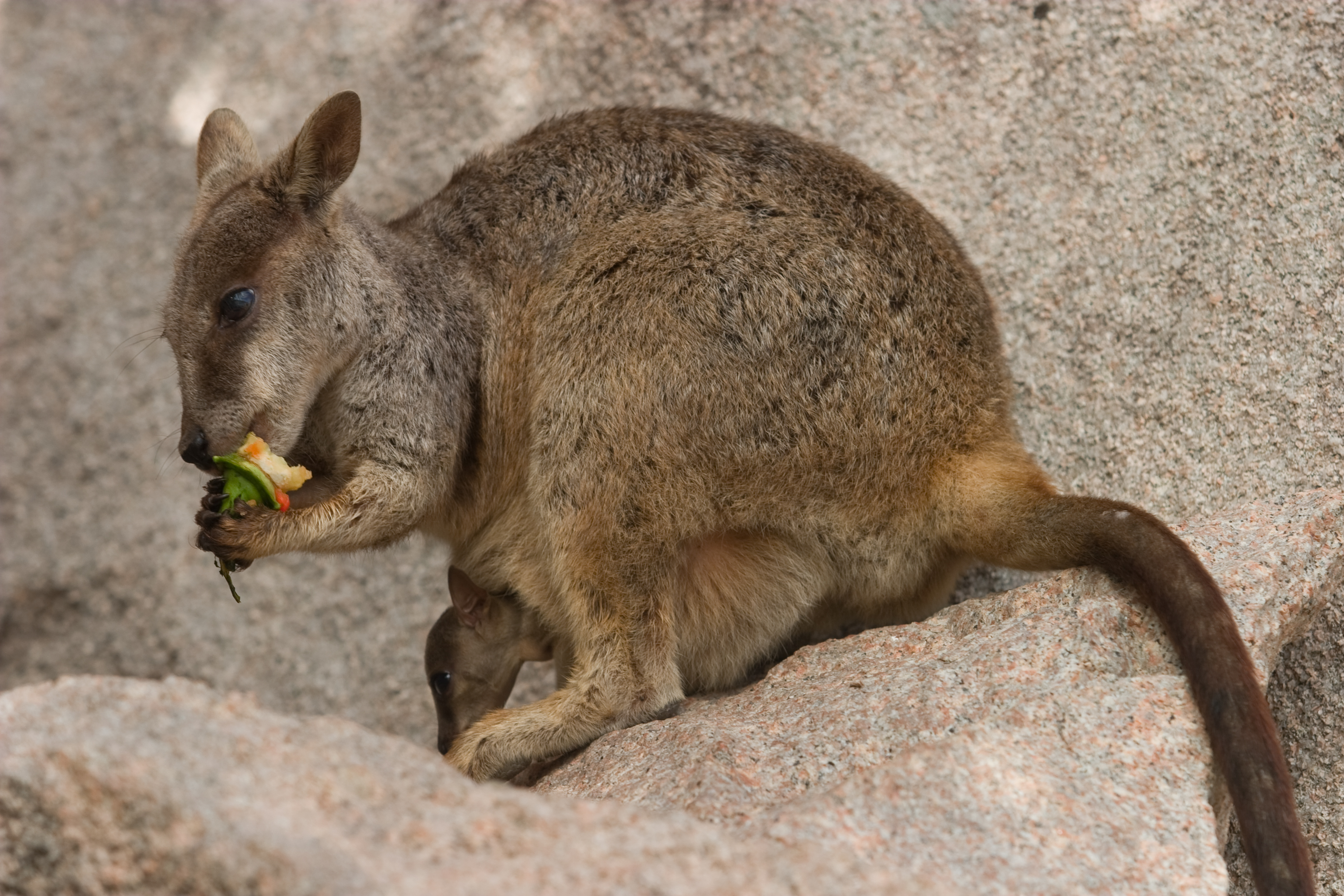 An Allied Rock Wallaby and its infant being fed capsicum on Magnetic Island. Taken by myself with a Canon 10D and 70-200mm f/2.8L lens.